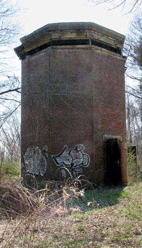 Front view of Fort Andrews brick fire control tower. Photo, from 2010, looks southerly.